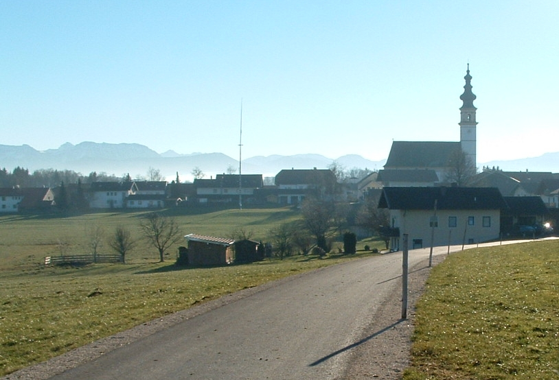 St. Leonhard am Wonneberg Photograph by Gakuro